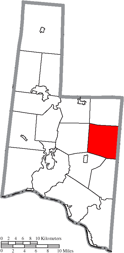 Map of the municipal and township boundaries of Brown County, Ohio, United States, as of the 2000 census, with the location of Jackson Township highlighted. Township borders are shown only in unincorporated areas in order to differentiate incorporated and unincorporated areas more clearly.